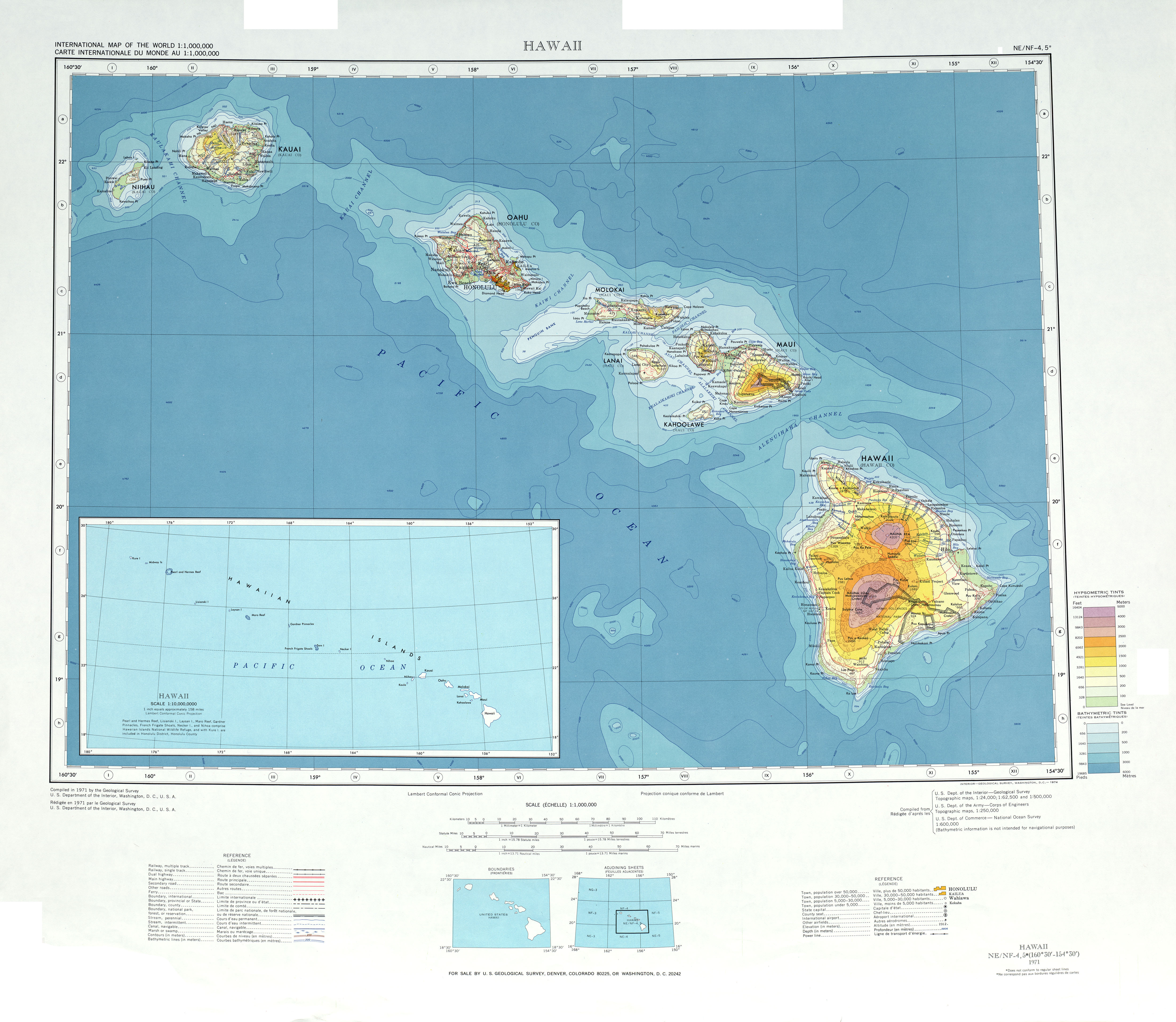 topographic map of Hawaii islands, scale 1:1 million, 1971